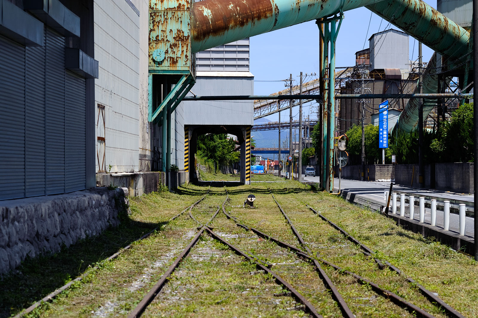 Seino-Tetsudo Saruiwa Station